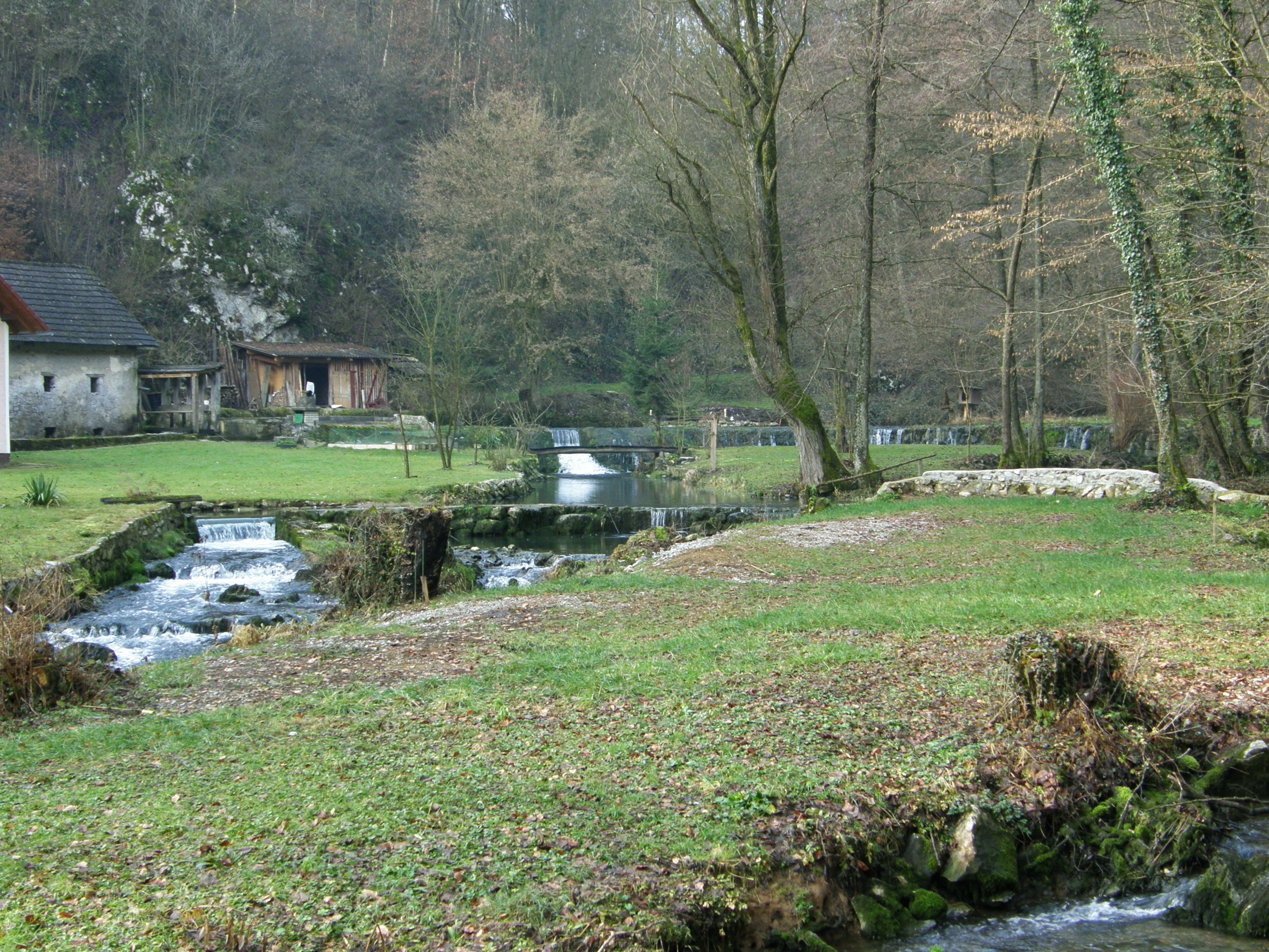 Zijalo, north of Mirna Peč, Slovenia, a place where upper karst river Temenica, emerges from its underground passages for the second time.